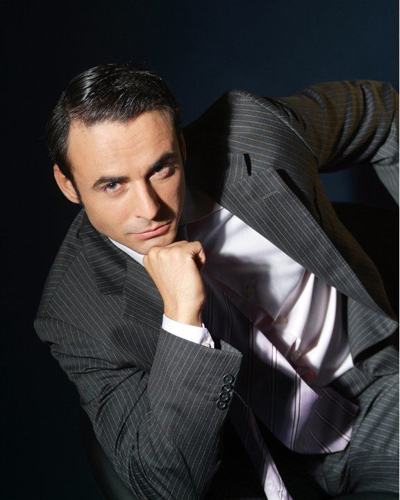 Actor David Vega posing as a Classic Hollywood actor.